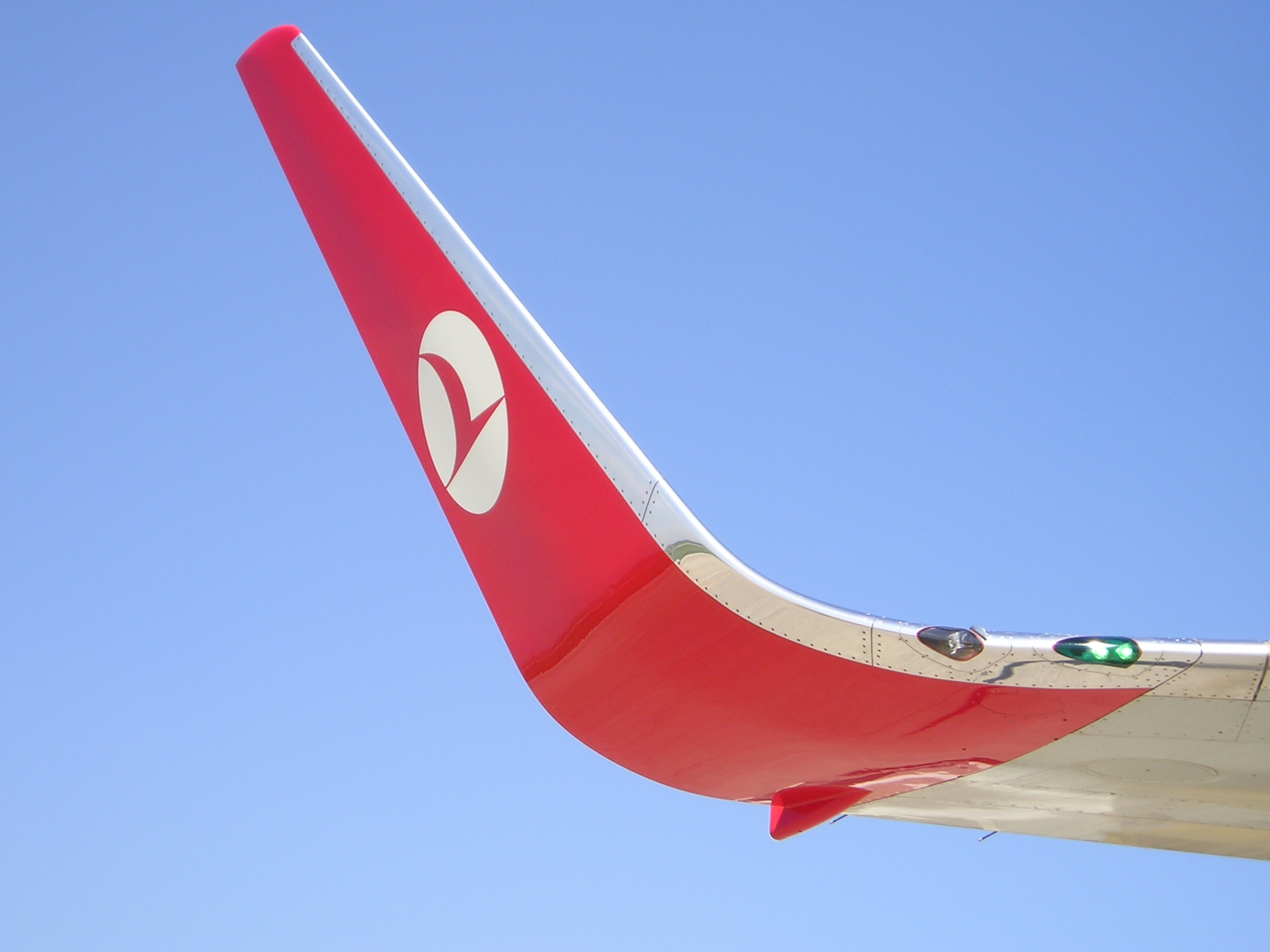 Winglet on Turkish B737-800